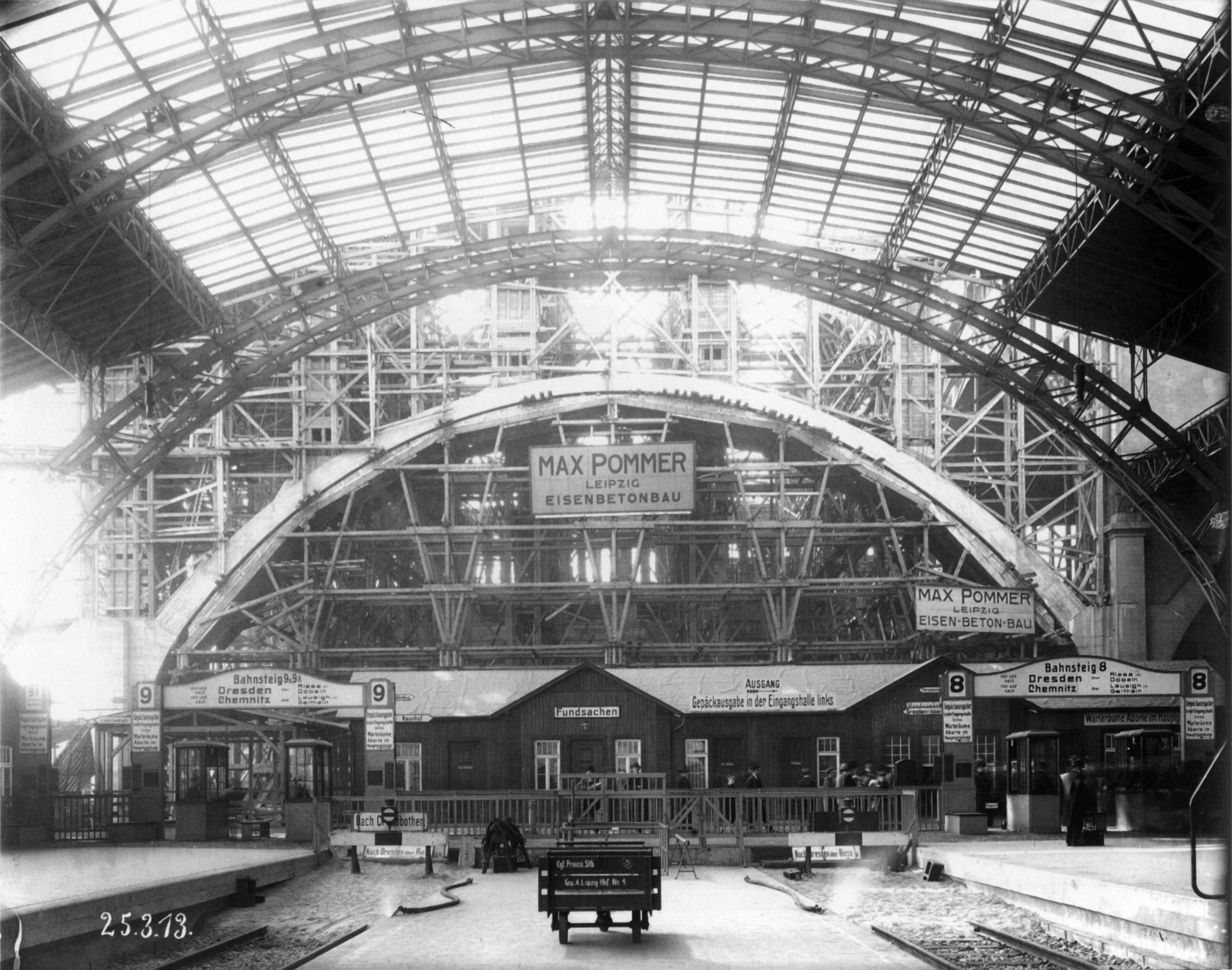 Construction of the Leipzig Main Station , 1913